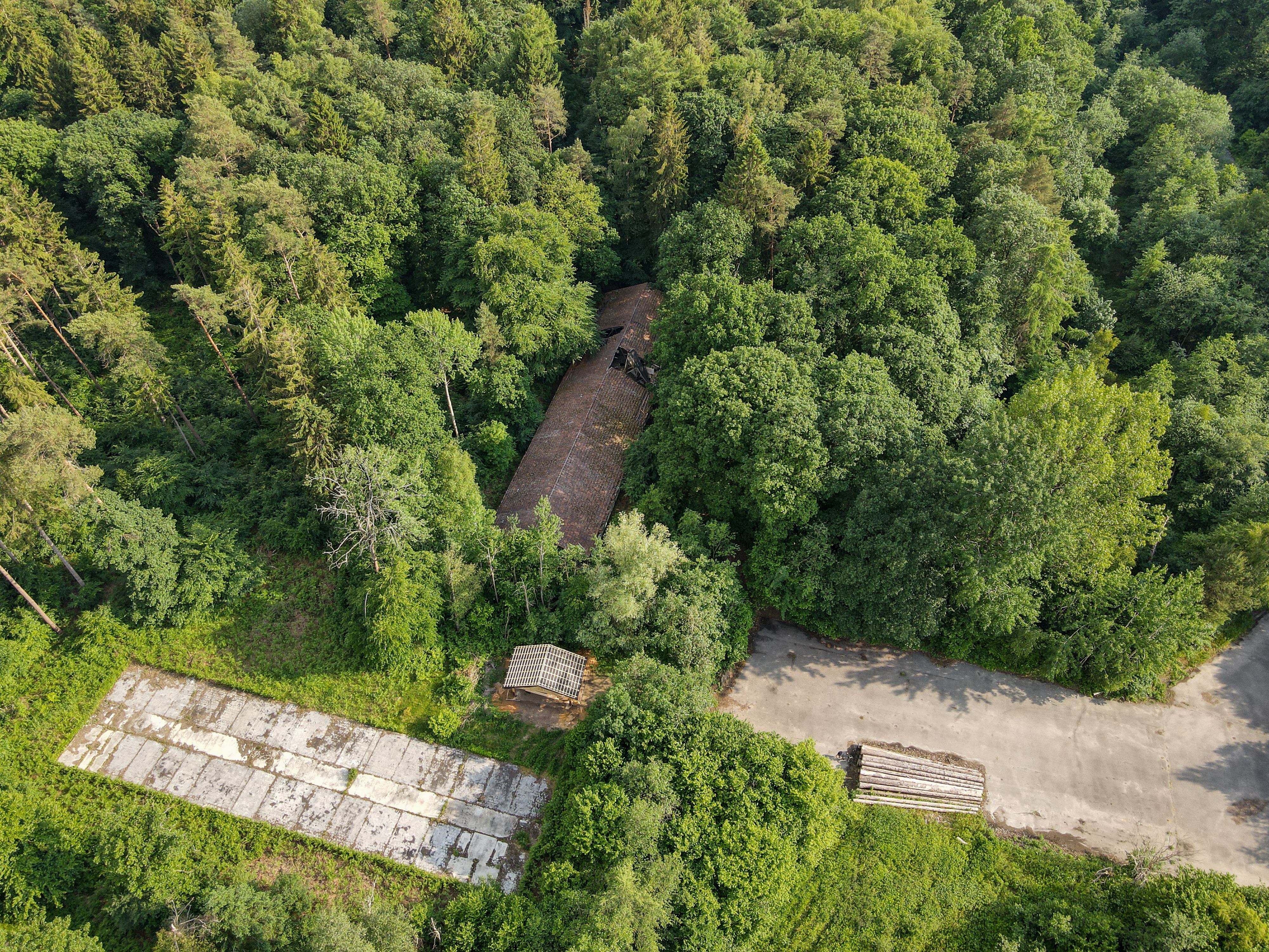 Aerial photo of an abandoned, ruined sickbay from 1942 in a forest in Drangstedt, Lower Saxony, Germany.